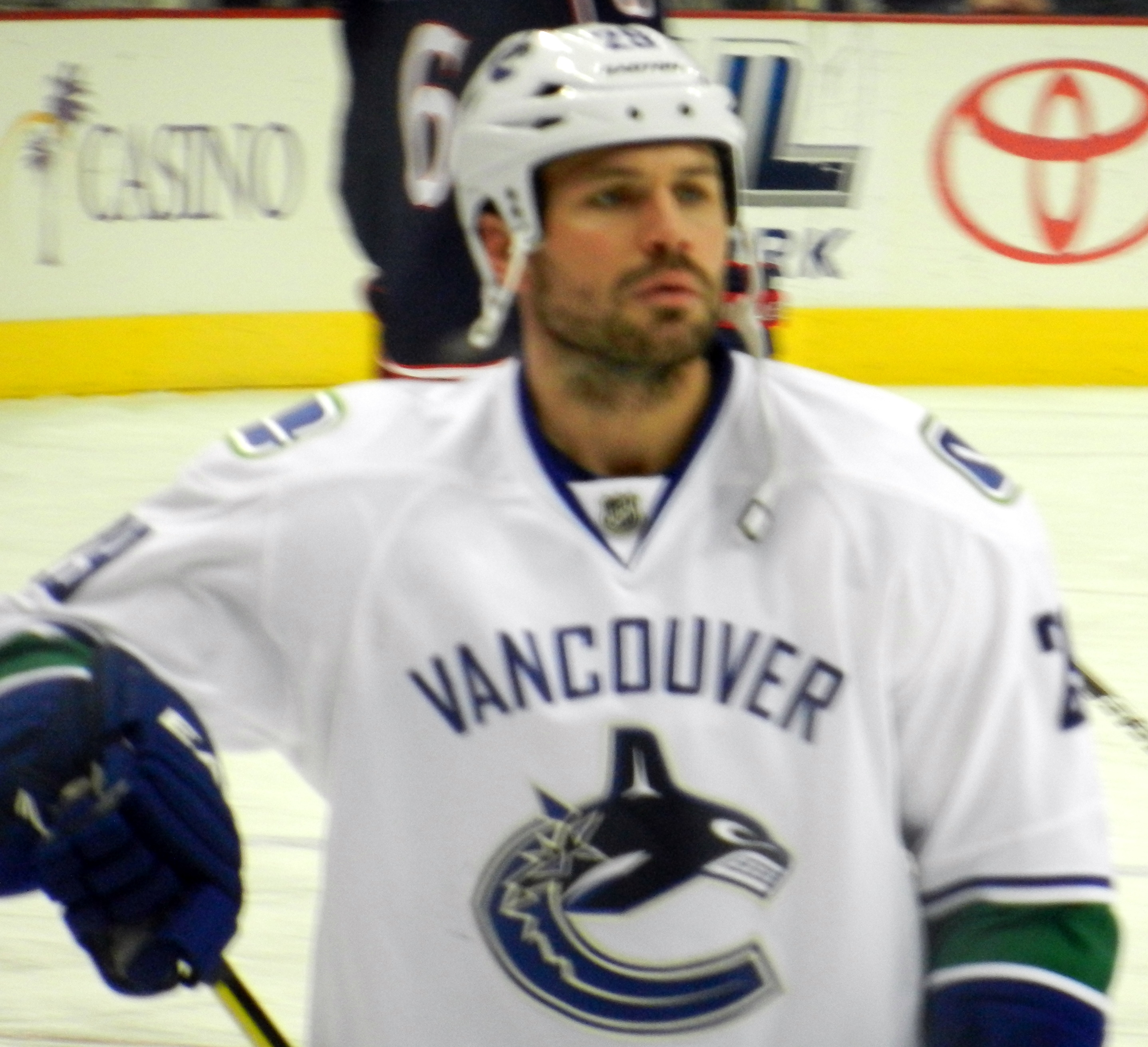 Aaron Rome playing for the Vancouver Canucks during warm-up of a game vs. the Columbus Blue Jackets in the 2011-12 season. Vancouver lost the game 2-1 in a shoot-out